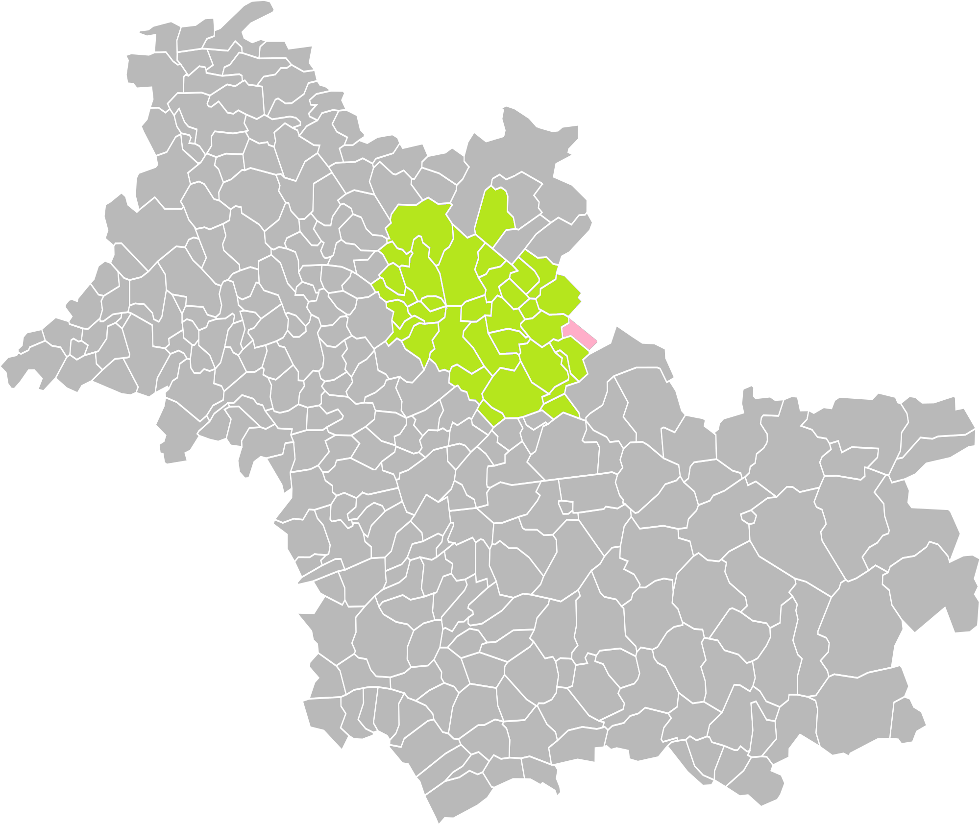 Location of the commune of Lestiou in the Communauté de communes de la Beauce-Val de Loire (Loir-et-Cher)